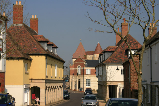 Middlemarsh Street Looking up Middlemarsh Street in Poundbury Village Dorchester. It shows some of the interesting architecture which is part of Prince Charles' vision for the village which was built on Duchy of Cornwall land. The Duchy of Cornwall website